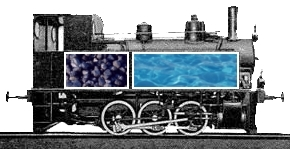 Coal and water tanks on Russian tank locomotive type i3 (Yer' series)